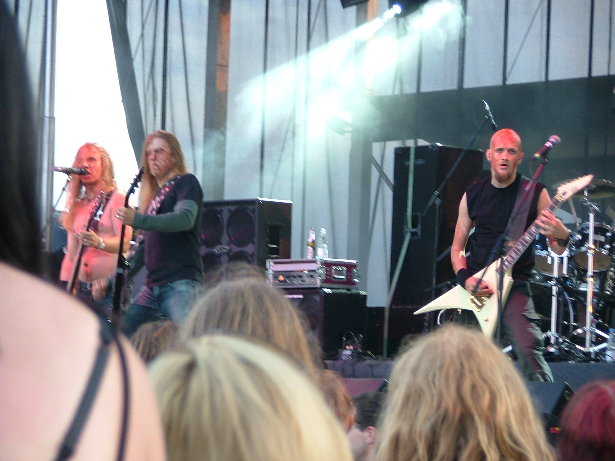 Finnish folk/pagan metal band Moonsorrow at the Summer Breeze in Dinkelsbühl